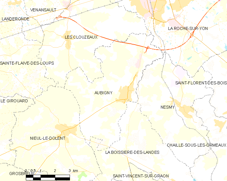 Map of French municipality Aubigny